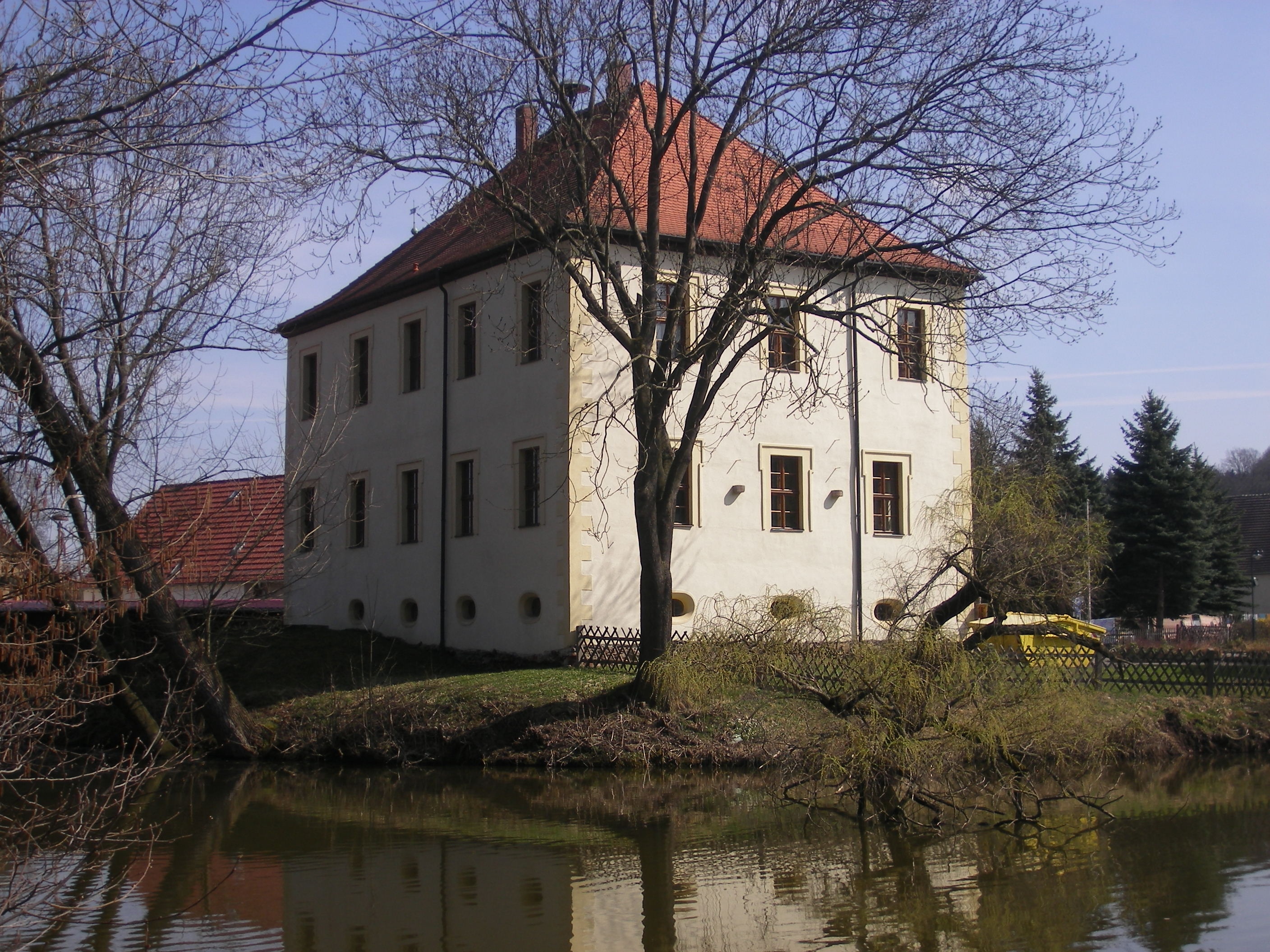 Municipal office and castle in Nöbdenitz near Gera/Thuringia